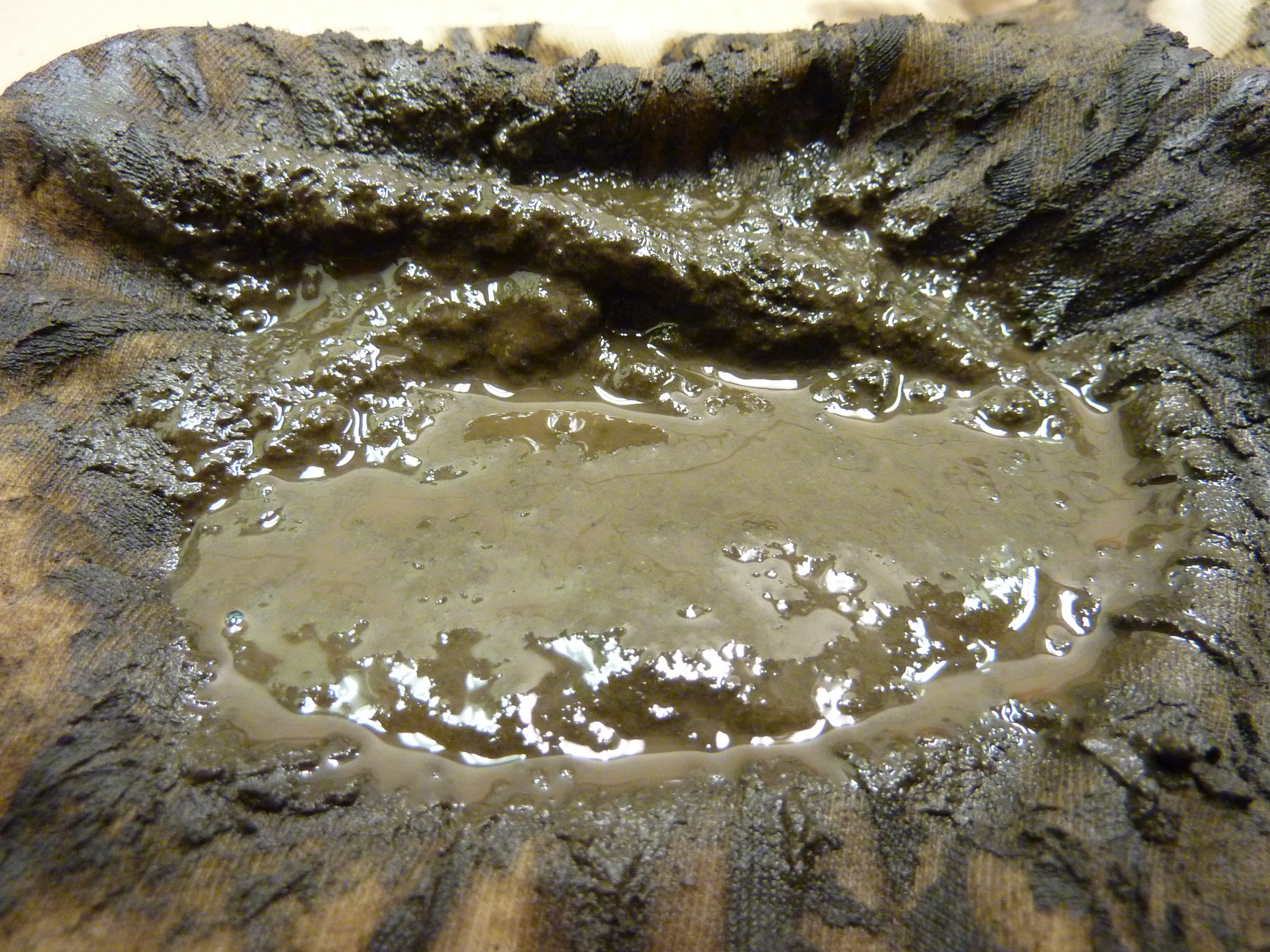 This sample of diesel bug was incubated in a 1 litre jar of clean red diesel in only three months. To the layman it has the appearance of dirt and sand and could easily be identified as dirt and sand. However, this is a living organism that will continue to reproduce and grow.